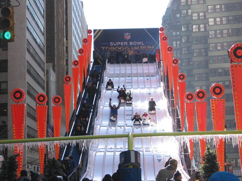 The Big Slide on Super Bowl Boulevard